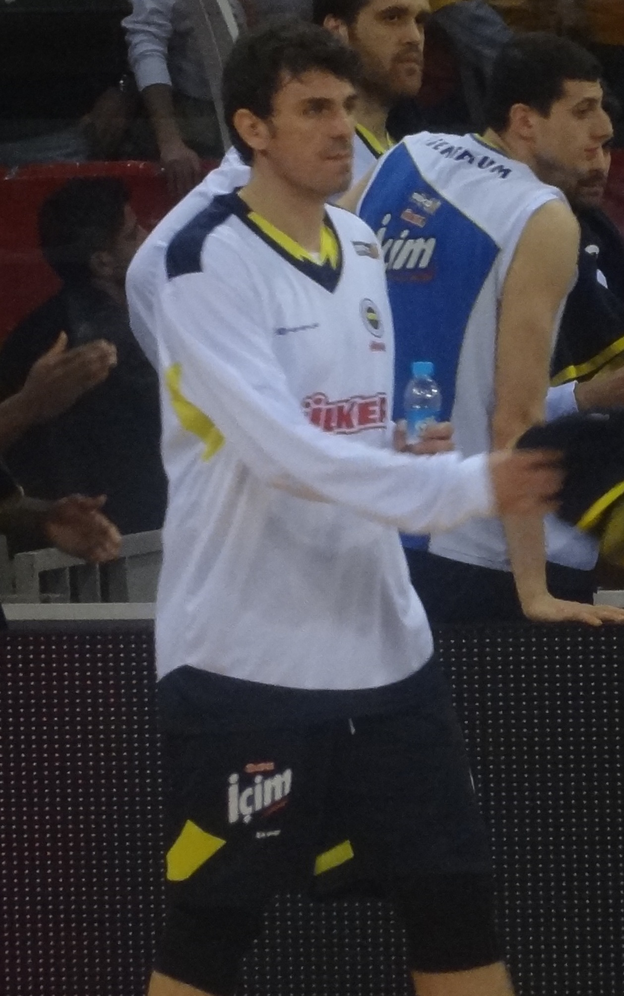 Galatasaray-Fenerbahce match